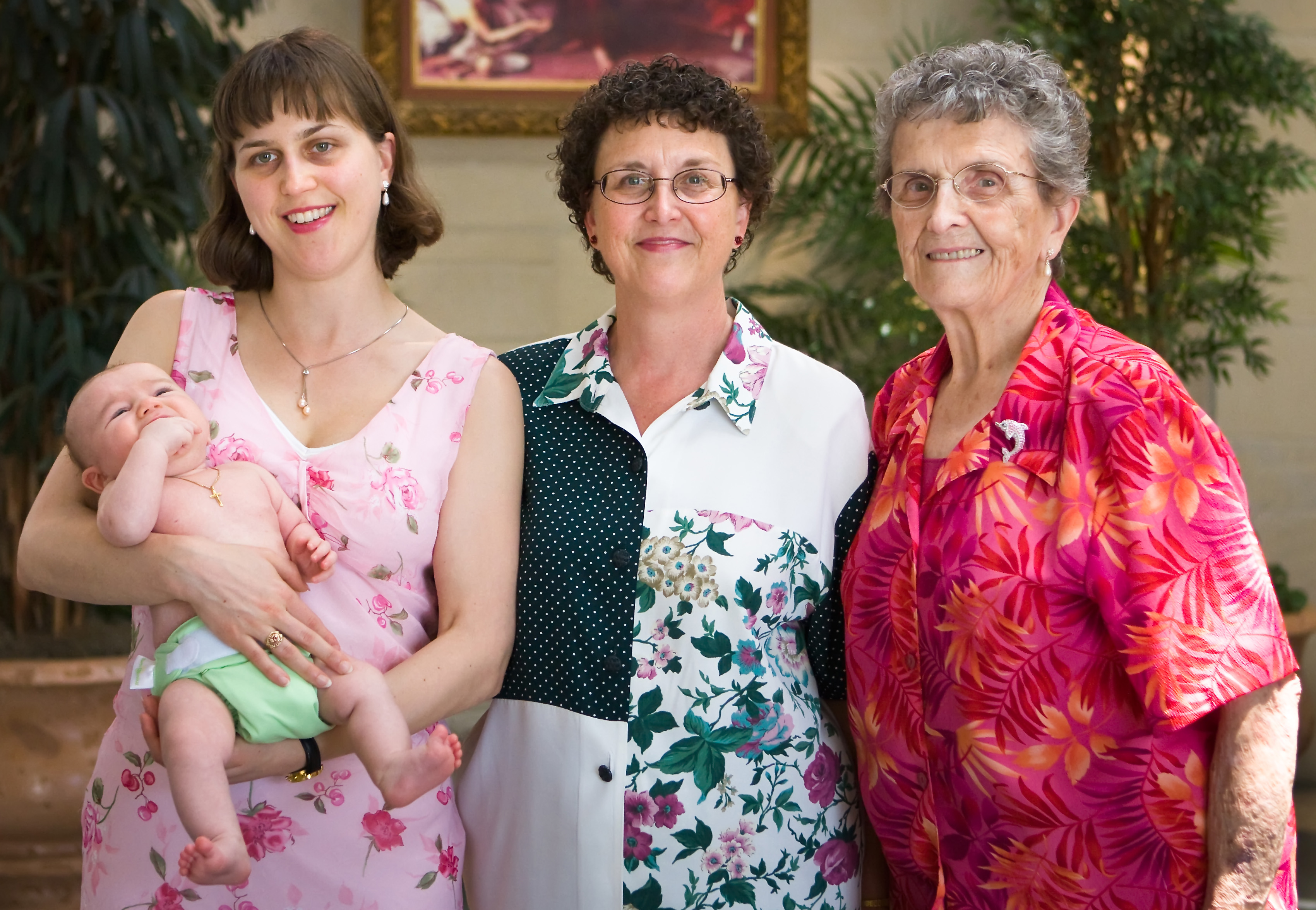 A photograph of a 2 month old human infant, his mother, his maternal grandmother, and his maternal great-grandmother. Each person in this photograph gave birth to the next younger person thus showing four generations in one family photograph.